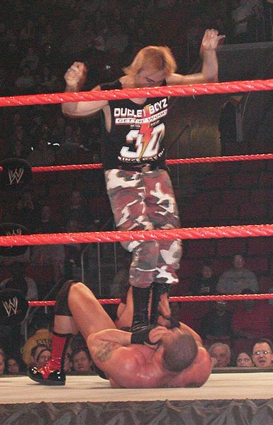 Spike Dudley hitting a Diving Double Stomp on Rodney Mack. Key Arena, Seattle, WA, March 31en:2003.